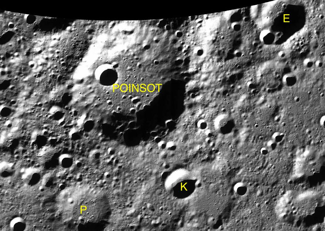 Part of the chart LAC-8 used for the presentation